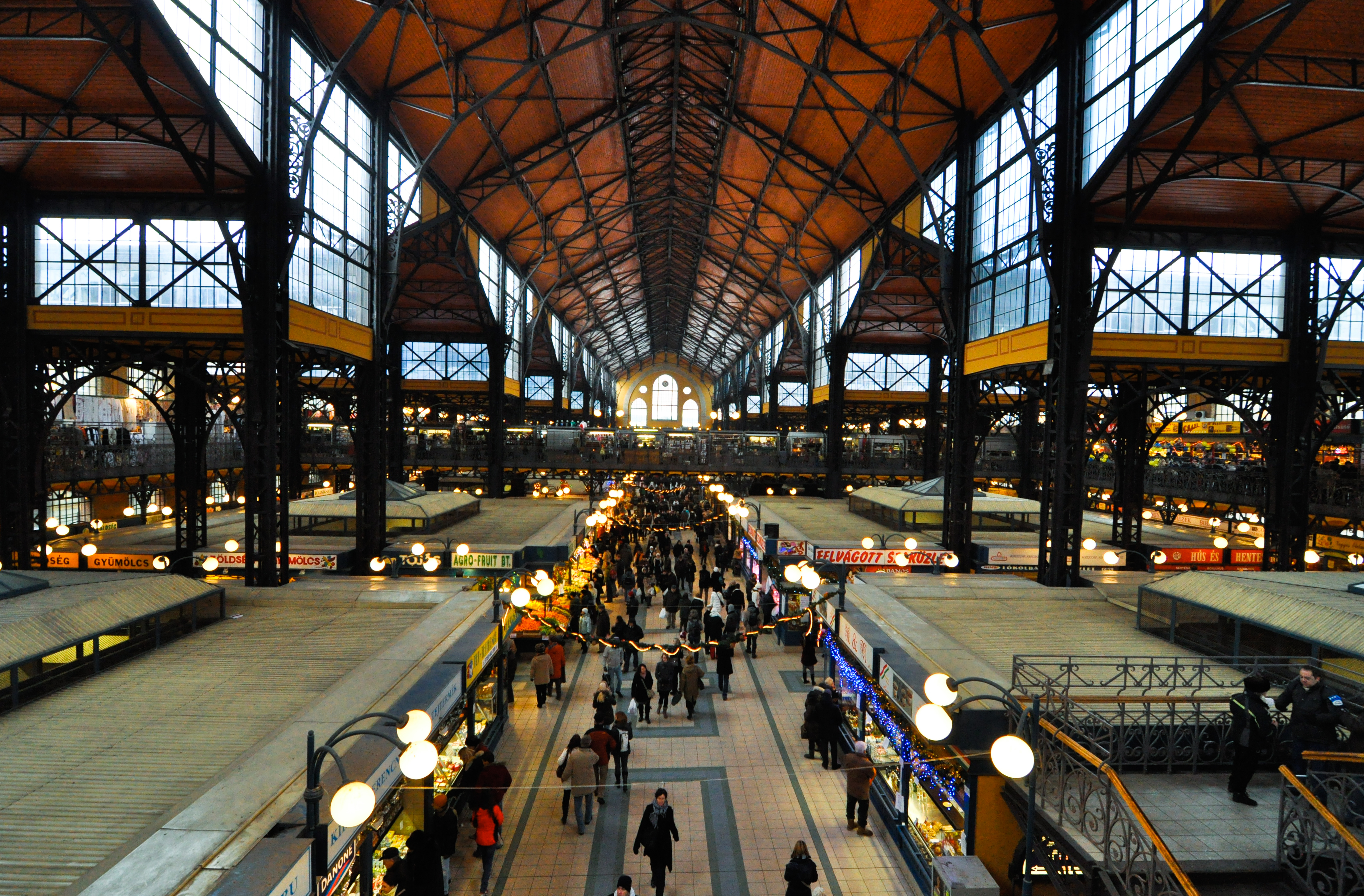 Photo of the Great Market Hall in Budapest District IX., Hungary.